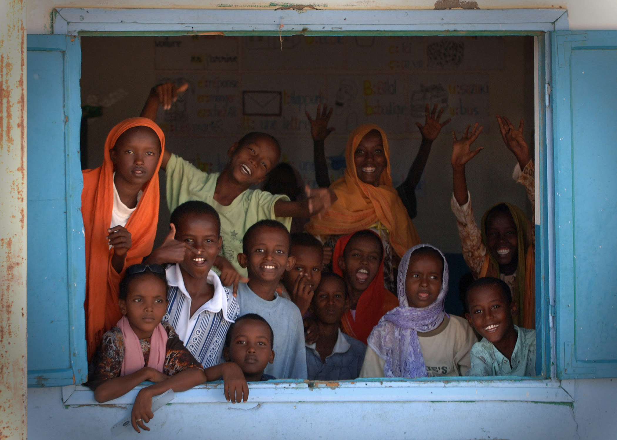 Djiboutian students in a school in Balbala, at the outskirts of Djibouti City Original description: Djiboutian students smile and wave after Combined Joint Task Force - Horn of Africa (CJTF-HOA) personnel handed out soccer balls during a visit to their school in Balbala, Djibouti, November 20, 2006. CJTF-HOA collected more than 300 soccer balls from churches, schools and organizations around the United States for donation to schools and orphanages throughout the Horn of Africa.